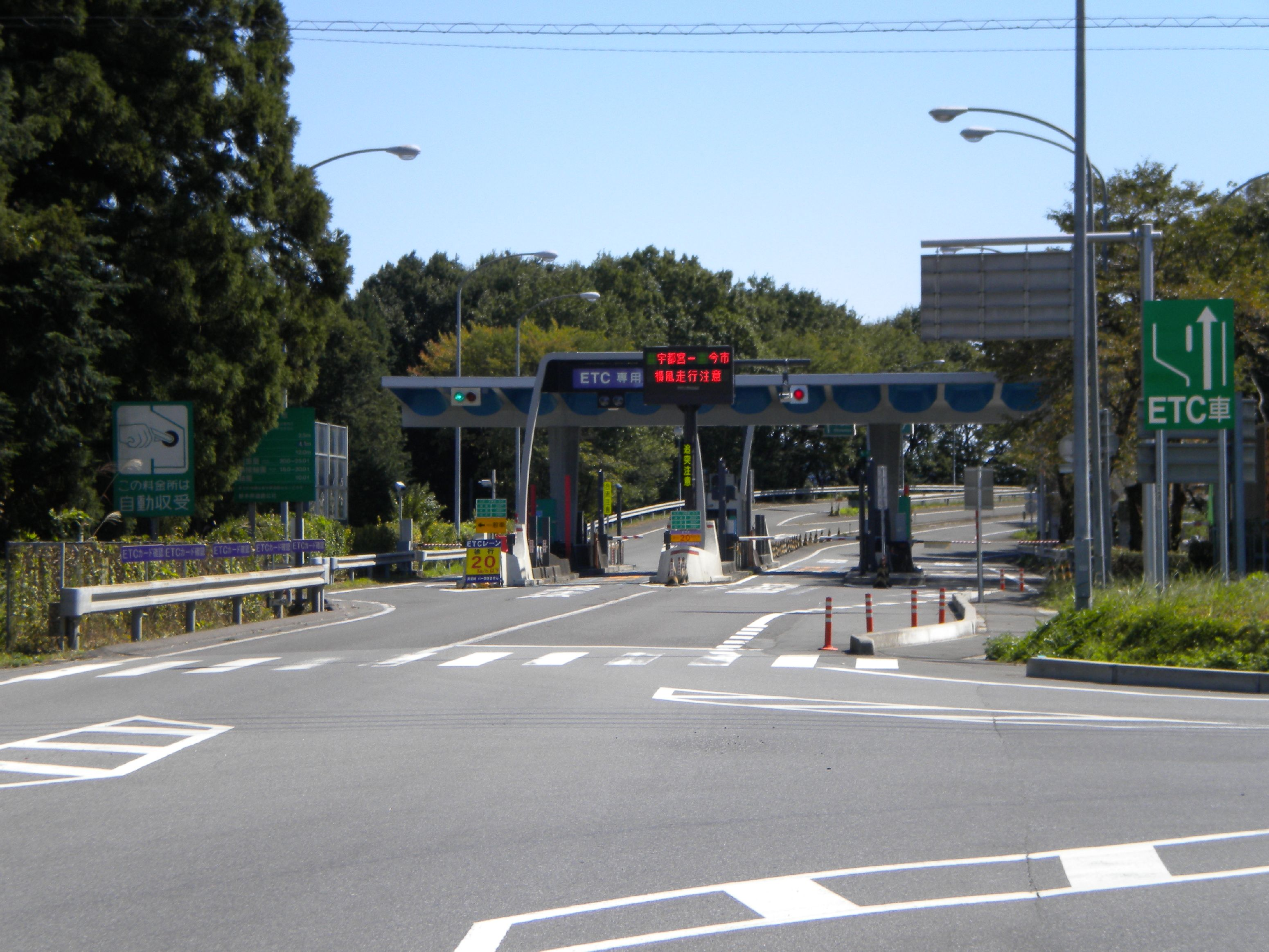 Osawa Interchange on the Nikko-Utsunomiya Road, as seen from the Tochigi Prefectural Road Route 110 in Kiwadashima, Nikko City